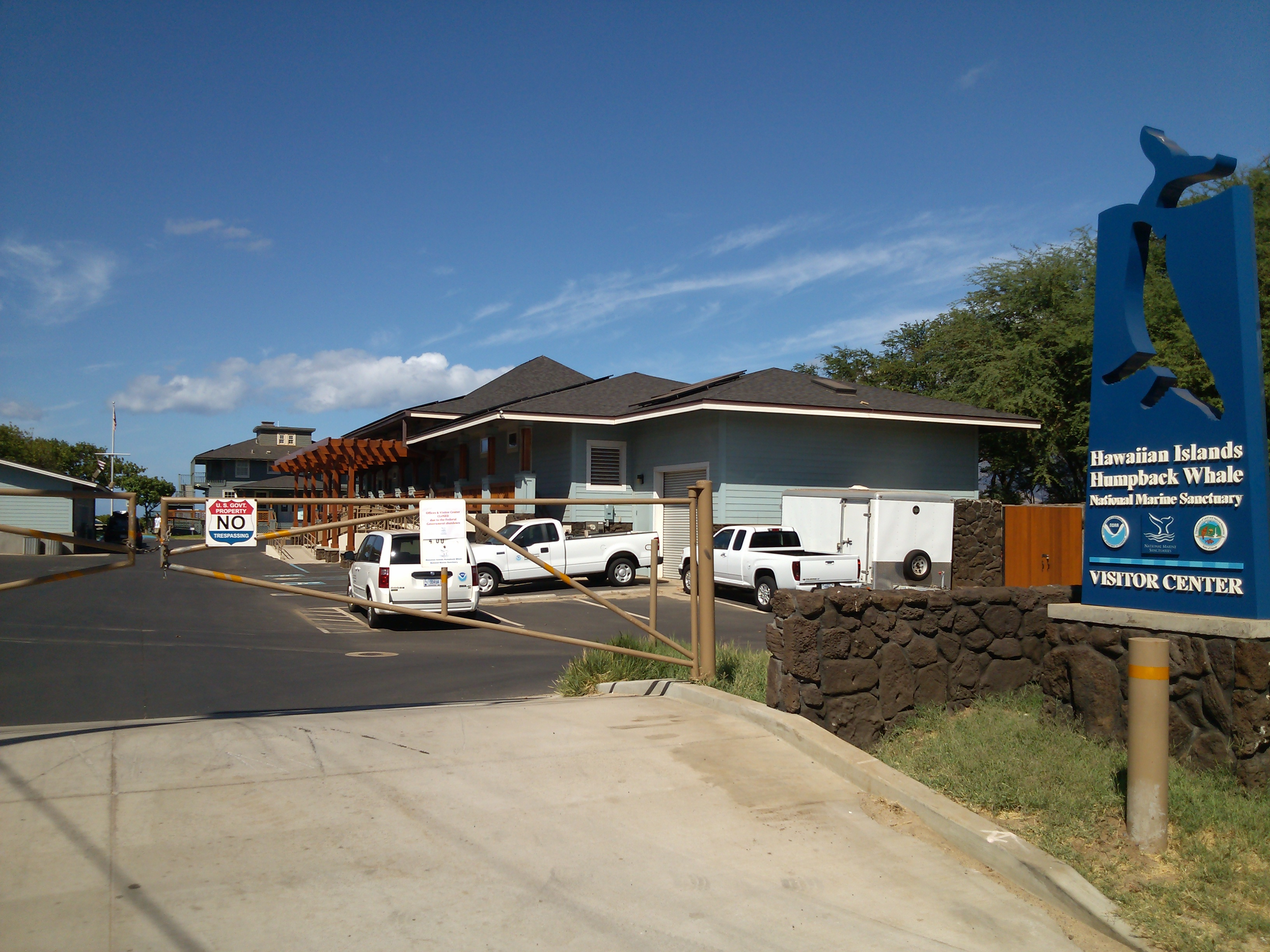 The Hawaiian Islands Humpback Whale National Marine Sanctuary facility in Kihei, Maui.